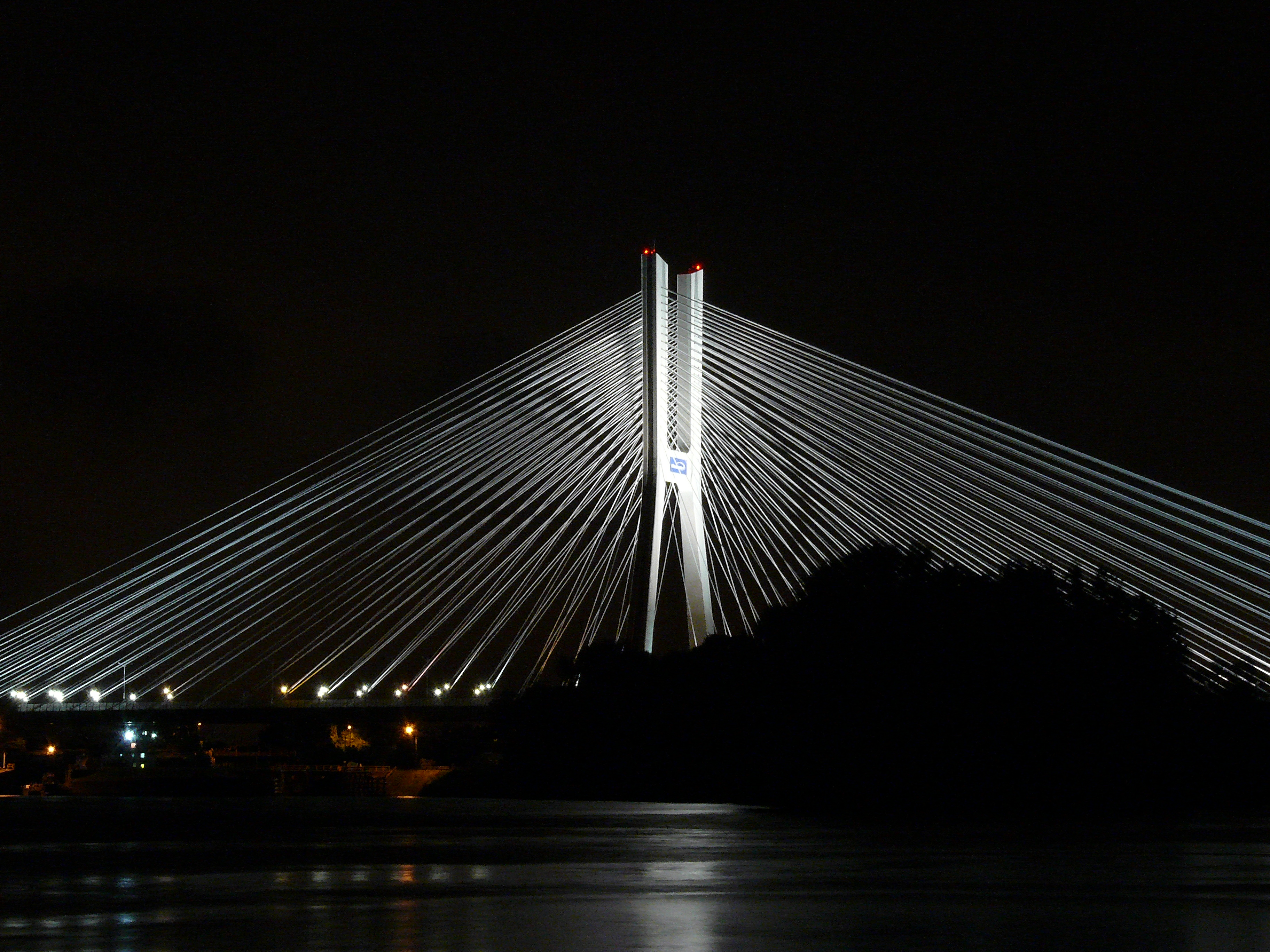 Rędziński Bridge in Wrocław at night